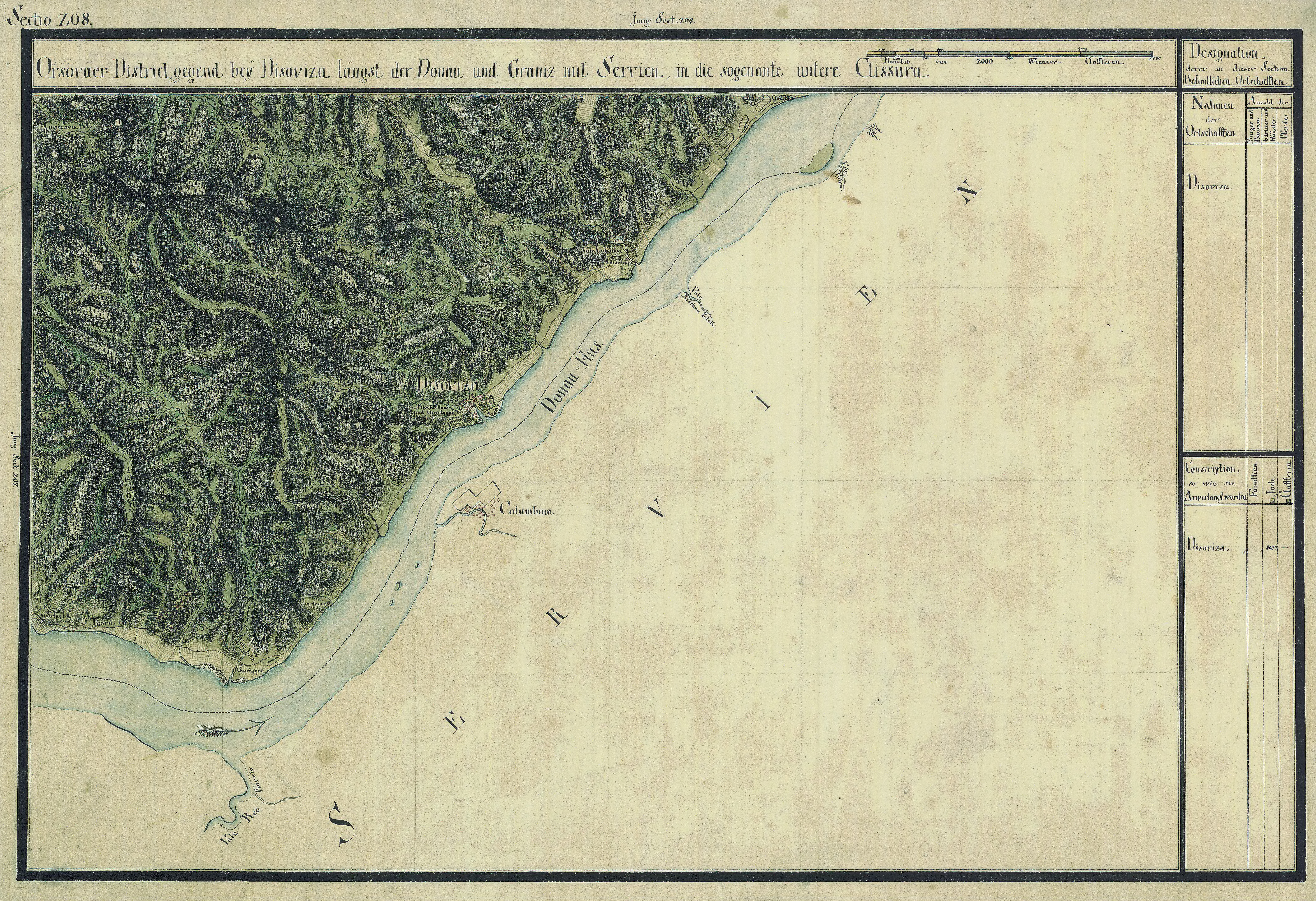 The Banat region in the cadastral maps: Josephinische Landesaufnahme, 1769-72. Josephinische Landaufnahme pg208